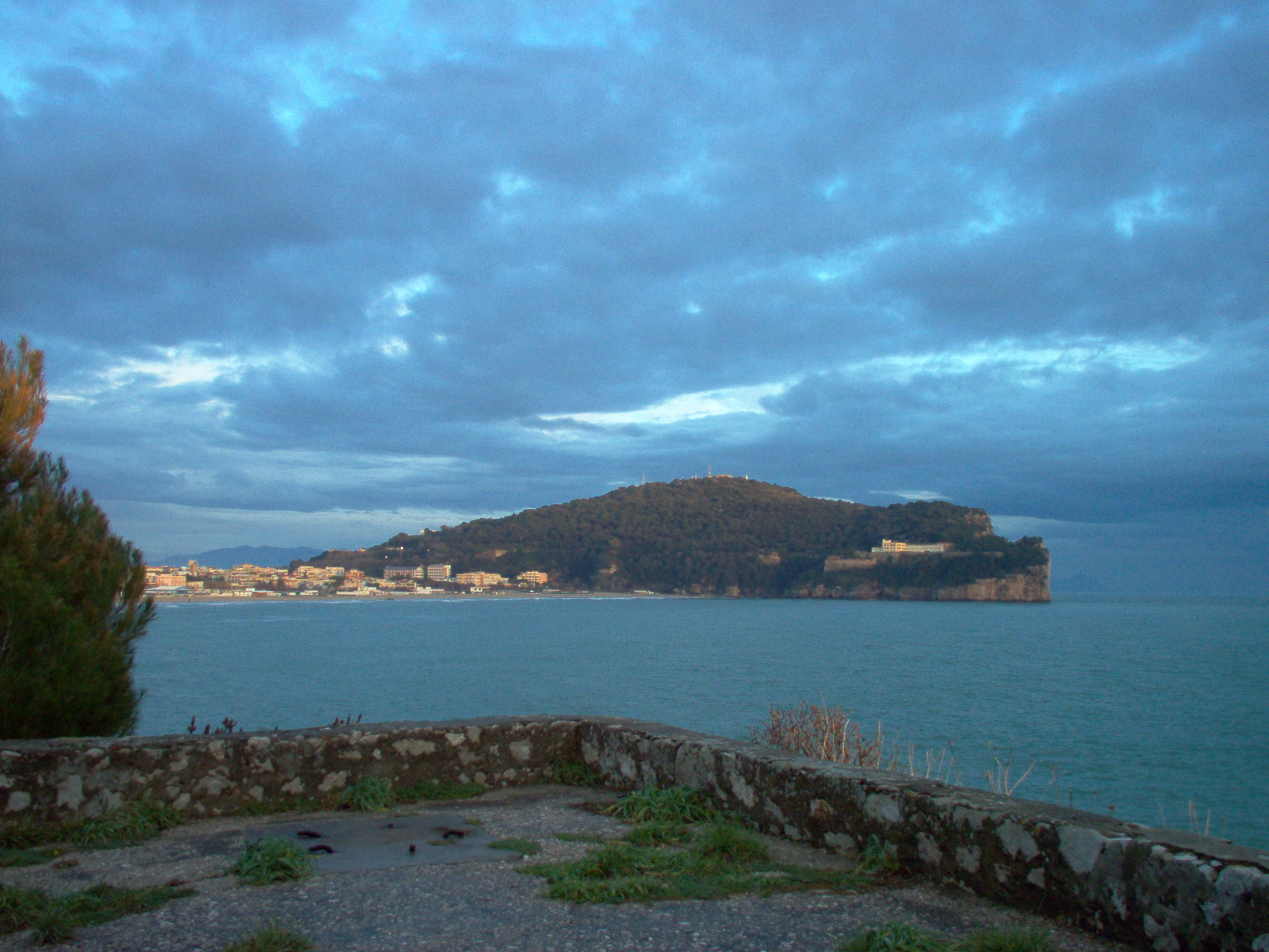 Attilio & Valentina Funel authors. New Eve's Day 2005-06